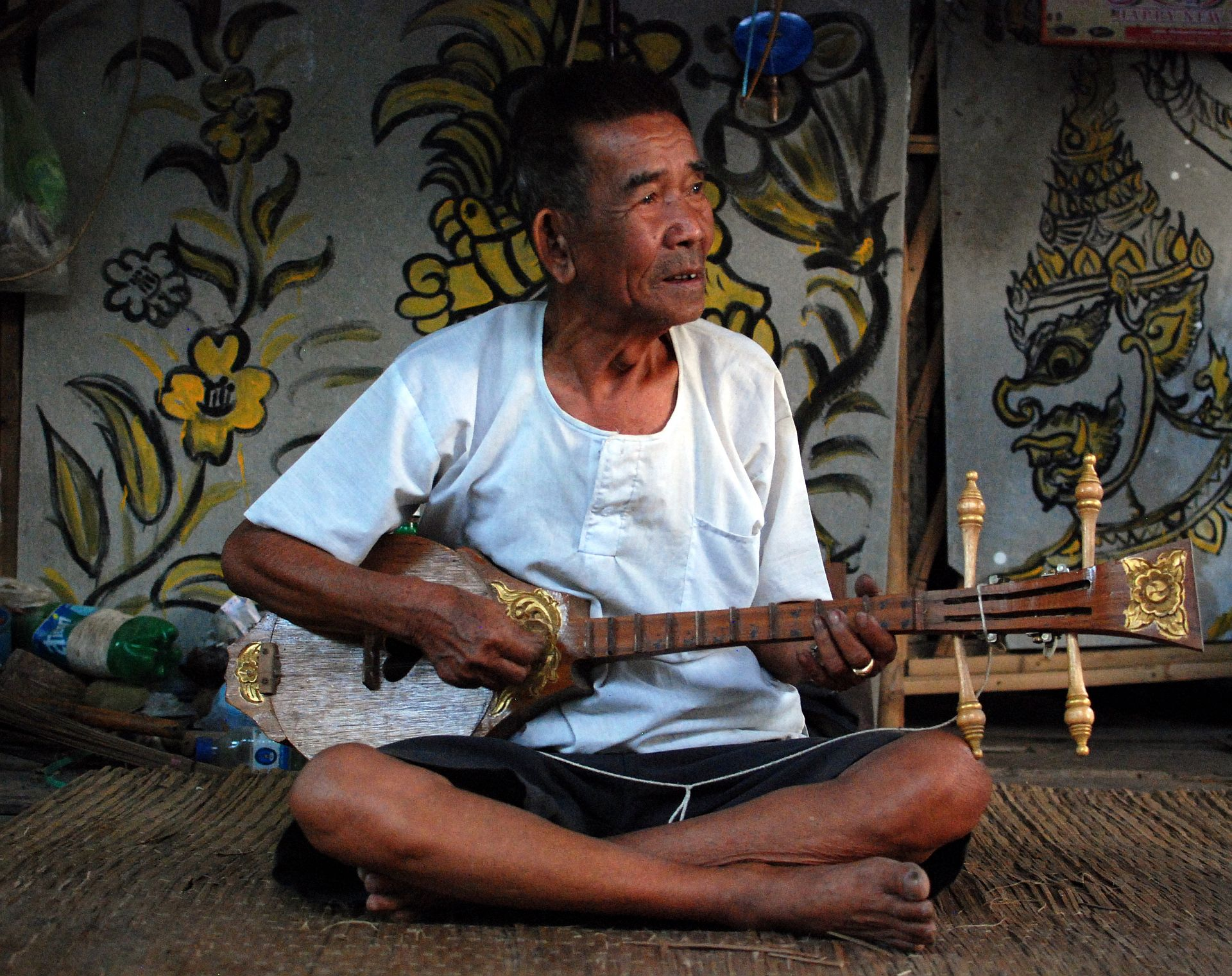 A teacher of traditional music at his house in Mae On, just outside Chiang Mai, plays a sueng (Thai script: ซึง, pronounced as "suh-ng"), a string instrument from northern Thailand. Besides being a music teacher, he is also an instrument maker and all his instruments have been crafted by himself.